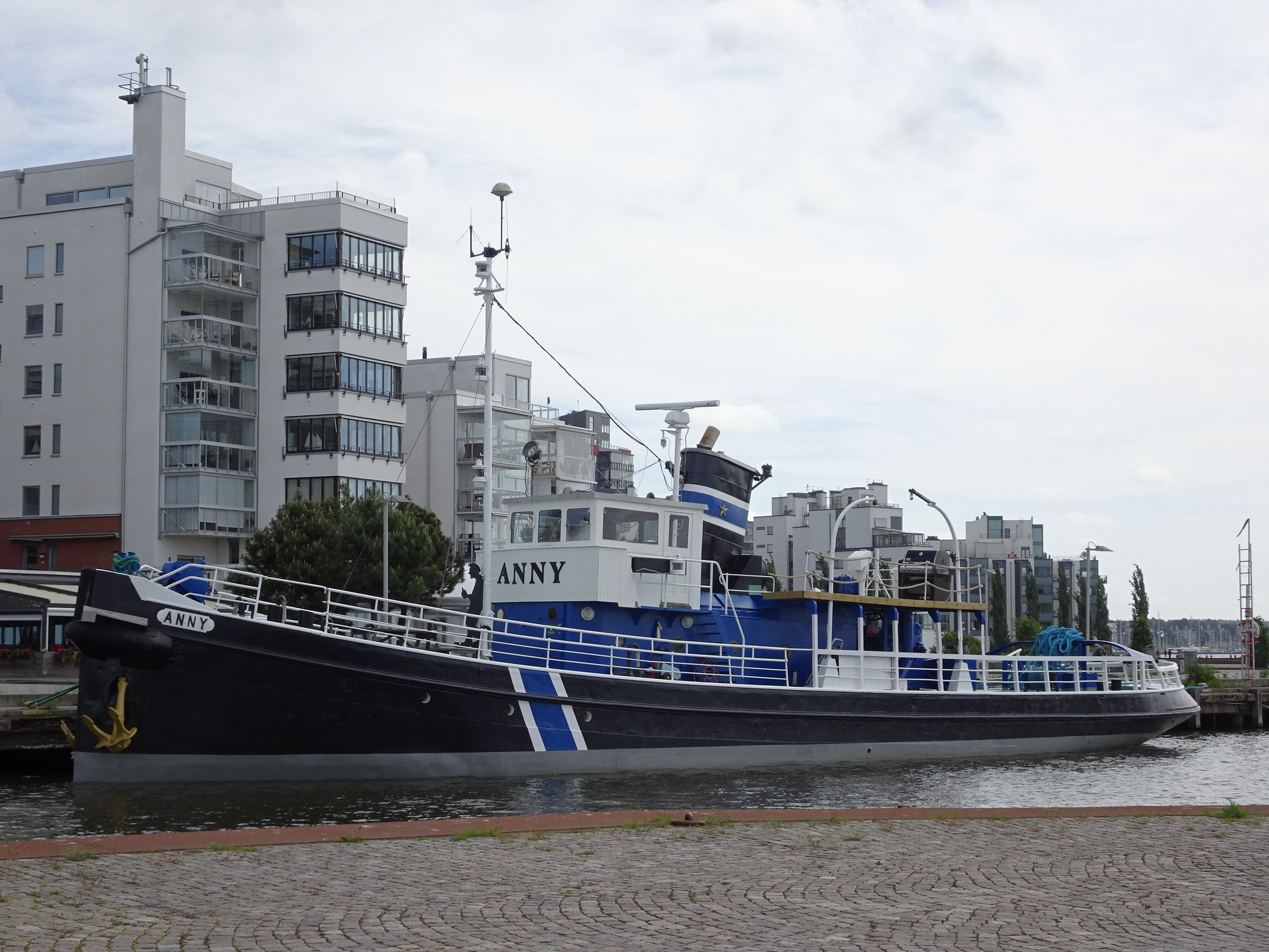 Tugboat Anny located in Västerås, Sweden. She was built in 1908 in Arnhem, the Netherlands. She was bombed and sunk in river Rhen during 2WW. She got a new machine and the name Anny in 1947, again in Arnhem. She came to Sweden 1951. She was moved from Stockholm to Västerås in 2017.